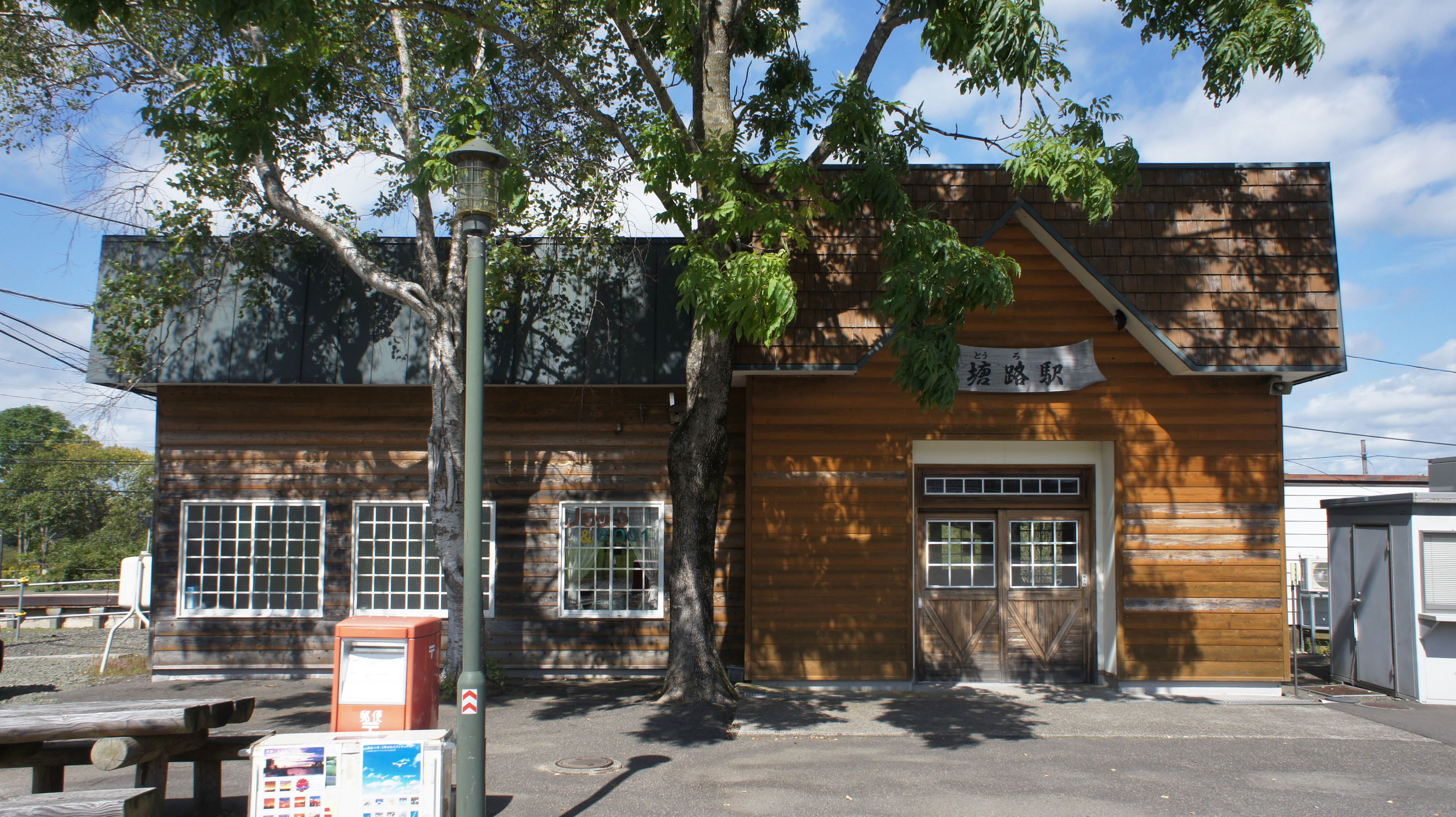 Station building of JR Senmo-Main-Line Toro Station